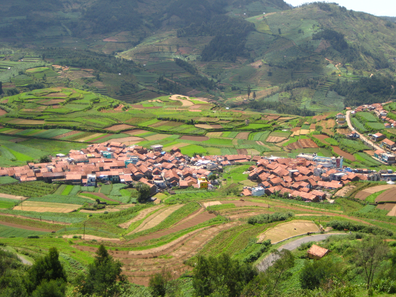 The farming village of Poomparai (flower rock), Kodaikanal, India. They farm carrots, cabbages, beans, citrus fruits, tomato and a lot more.